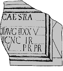 Building inscription of the Second Legion Augusta and Twentieth Legion Valeria Victrix, Bewcastle/Fanum Cocidi (GB), found before 1732.